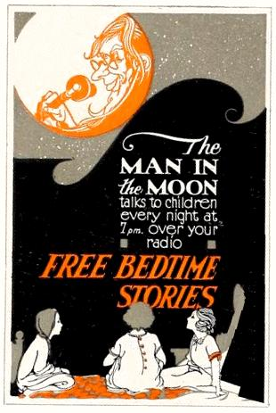 Promotional poster for the "Man in the Moon" program, which was broadcast nightly by radio station WJZ in Newark, New Jersey (now WABC New York City).